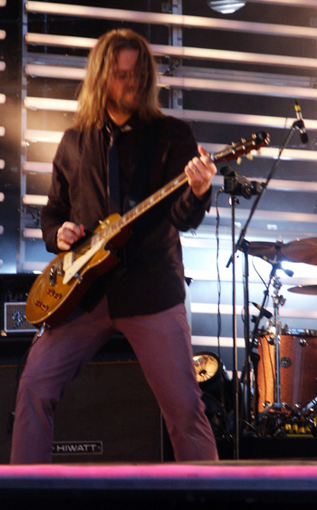 Christopher Lundquist